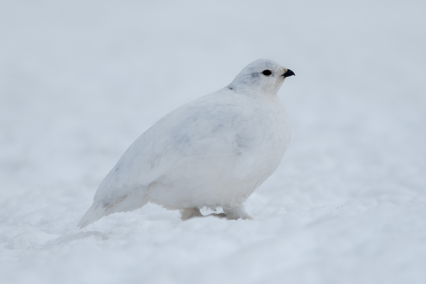 Loveland Pass 11995ft Colorado